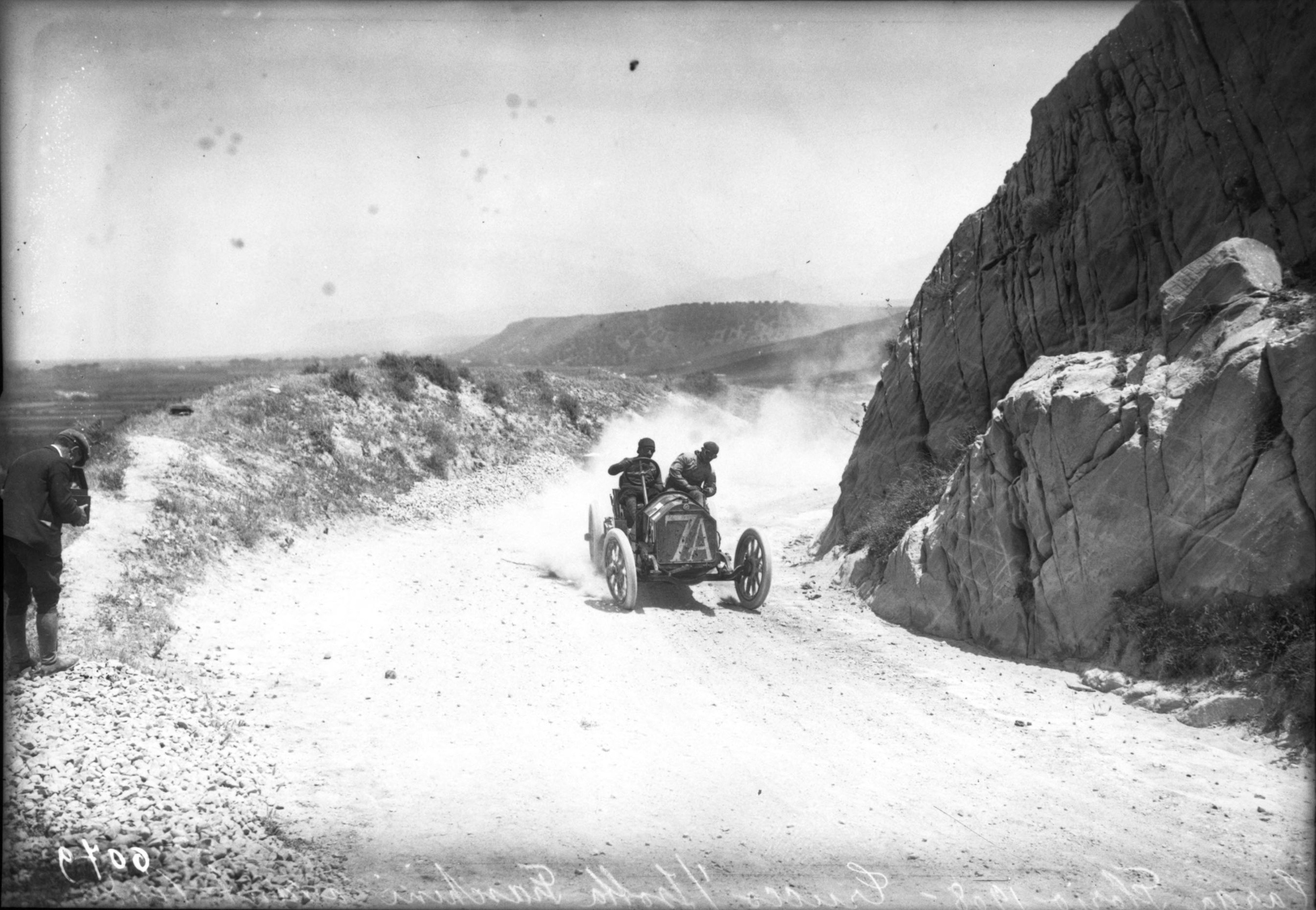 Vincenzo Trucco in his Isotta-Fraschini at the 1908 Targa Florio.